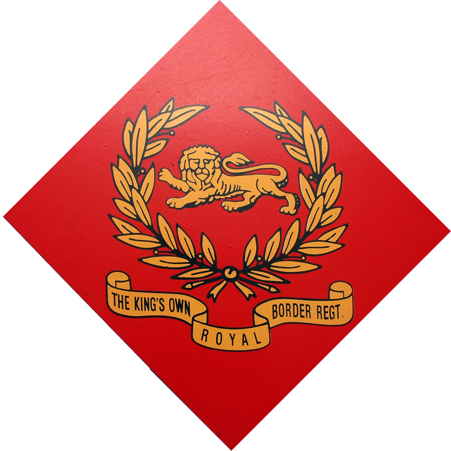 Jpeg image of the King's Own Royal Border Regiment Cap Badge with red diamond back ground.